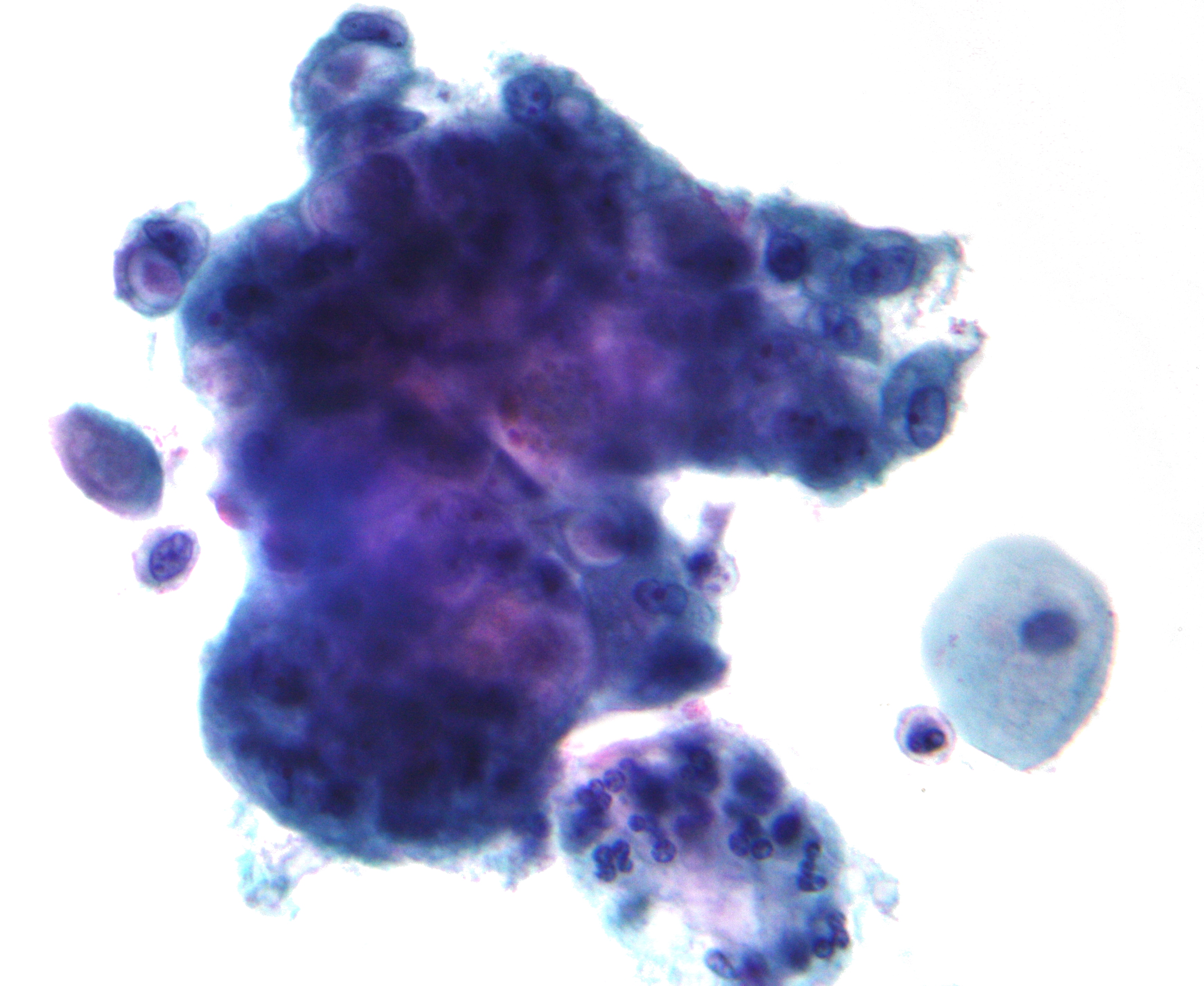 Micrograph showing adenocarcinoma found a Pap test. Pap stain. A normal intermediate (squamous) cell is seen on the right of the image. The malignant cells have prominent mucin filled intracytoplasmic vacuoles. The pictured adenocarcinoma was of endocervical origin - not apparent on the image. See also Same view different plane of focus. Other Pap test images: HSIL. LSIL.